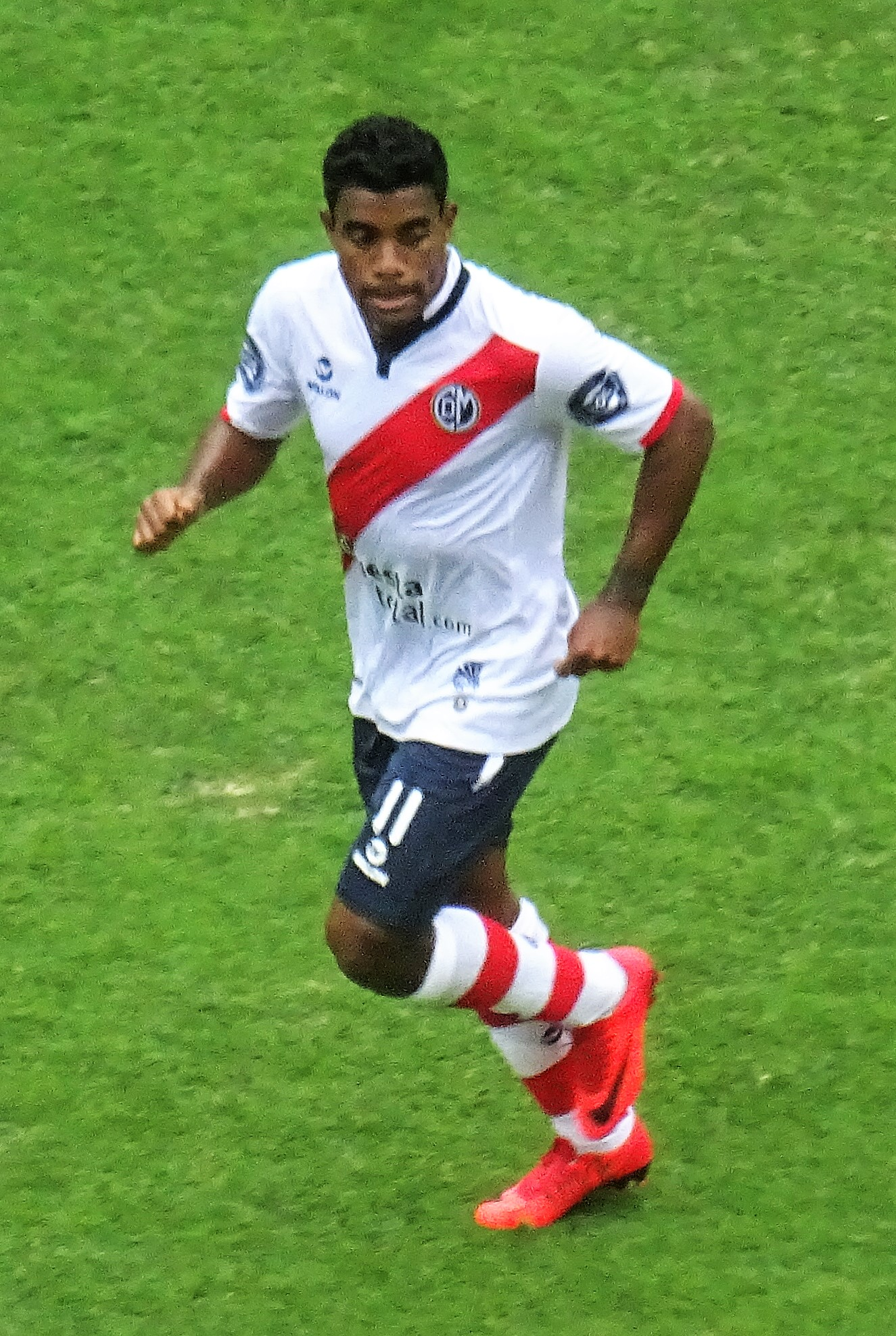 Ricardo Buitrago (Panama 1985) Panamanian footballer. National Stadium, Peru 2018